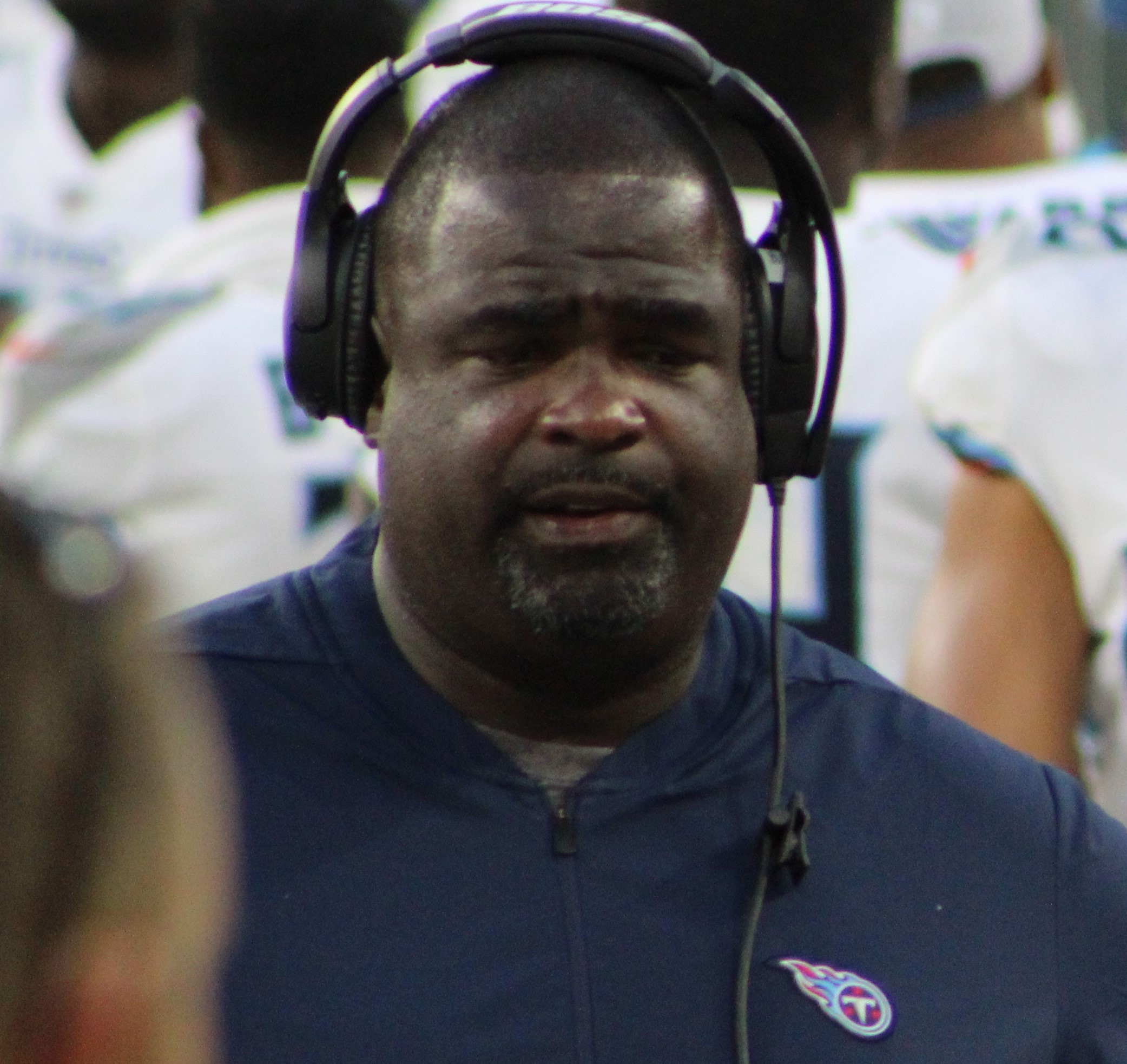 Williams with the Titans on August 8, 2018